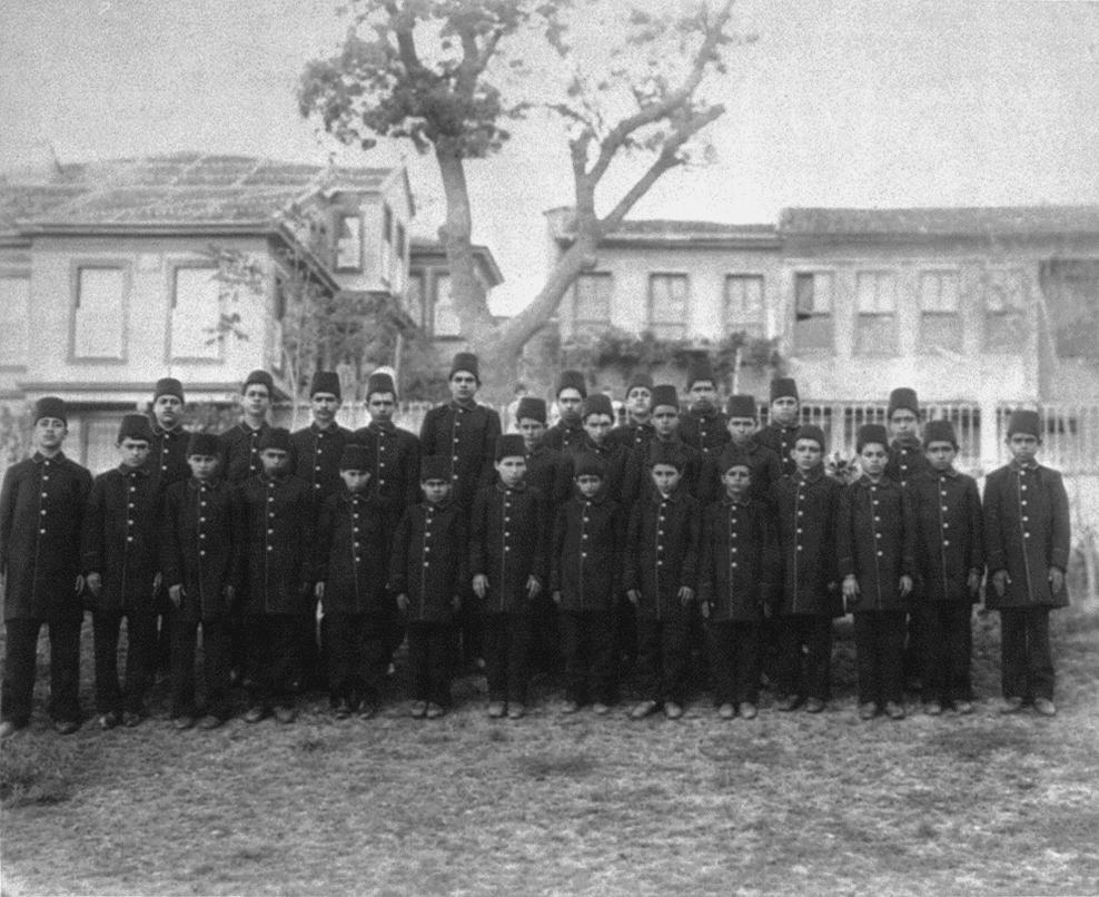 Group of Students of Mekteb-i Aşiret-i Humayun (Imperial Tribal School), which was an Istanbul school founded in 1892 by Abdulhamid II to promote the integration of tribes into the Ottoman empire through education. Abdullah Frères — Viçen (1820-1902), Hovsep (1830-1908) and Kevork Abdullah (1839-1918): three armenian brothers who ran a commercial studio in Constantinople with branches in Cairo and Alexandria. In 1862, named official photographers to the court of Sultans Abdul Aziz and Abdul Hamid II, they were commissioned to document the Ottoman Empire.